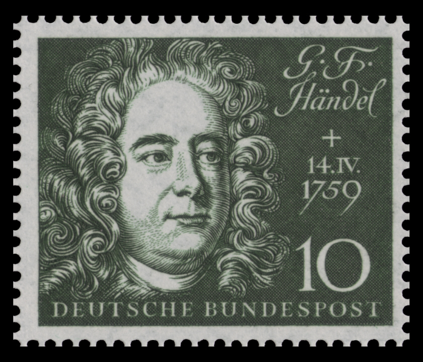 Induction of the Beethoven Hall in Bonn Graphics by Kern Ausgabepreis: 10 Pfennig First Day of Issue / Erstausgabetag: 8. September 1959 Michel-Katalog-Nr: 315